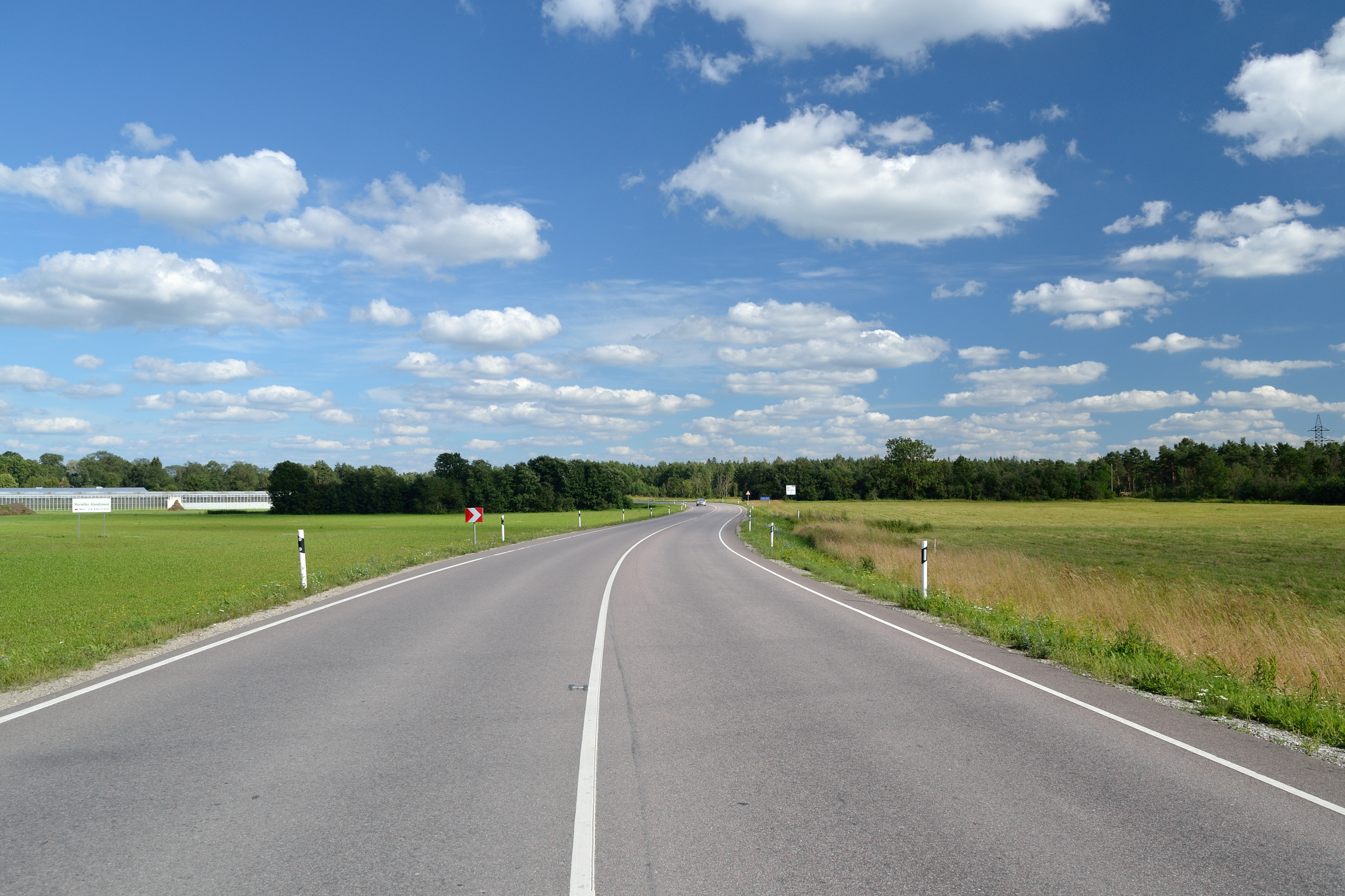 Tallinn–Saku–Laagri road on border of villages Jälgimäe and Juuliku